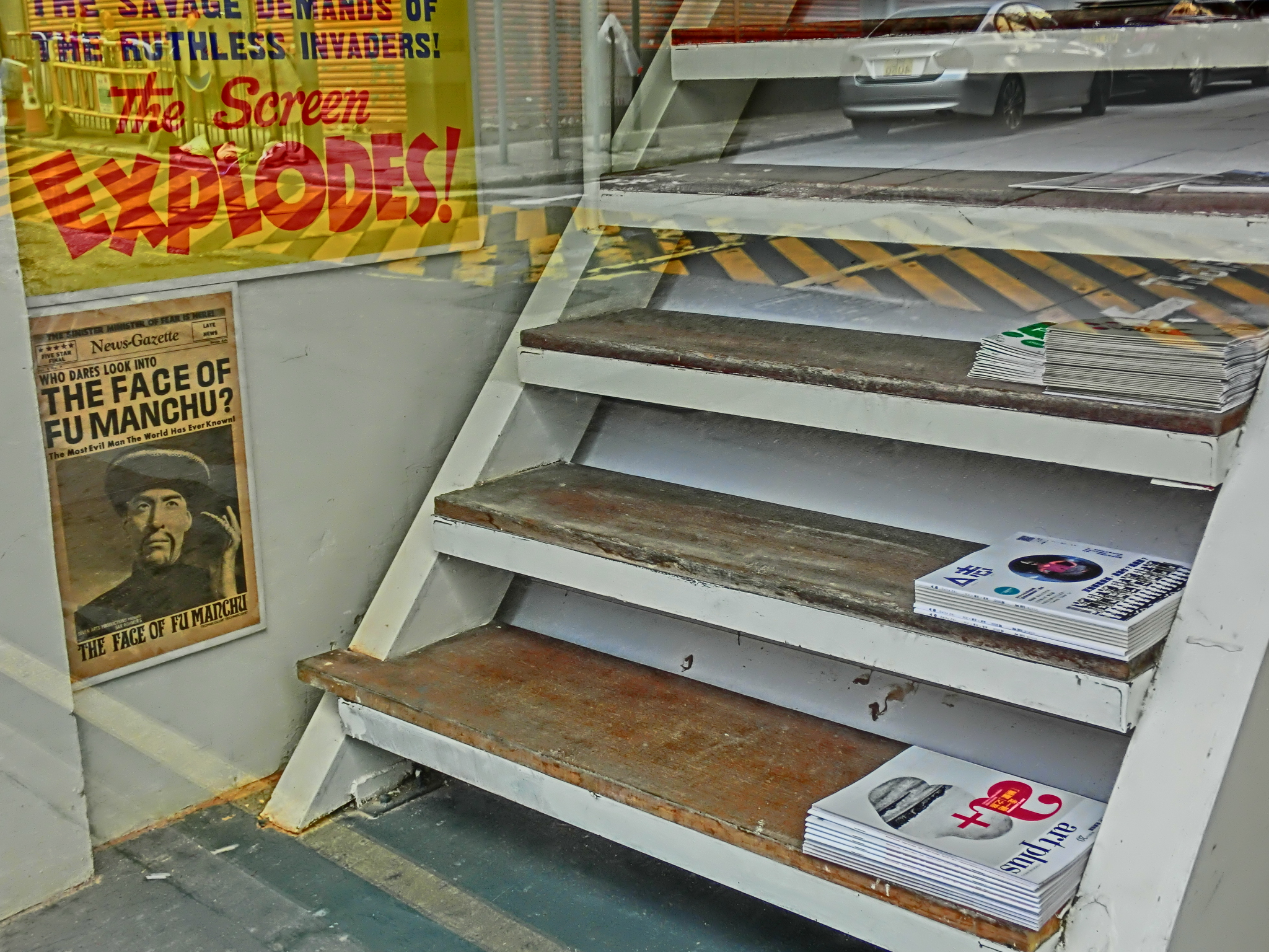 Para/Site Art Space, G/F, 4, Po Yan Street, Sheung Wan, Hong Kong, 上環zh:普仁街 4 號 ground floor shop.